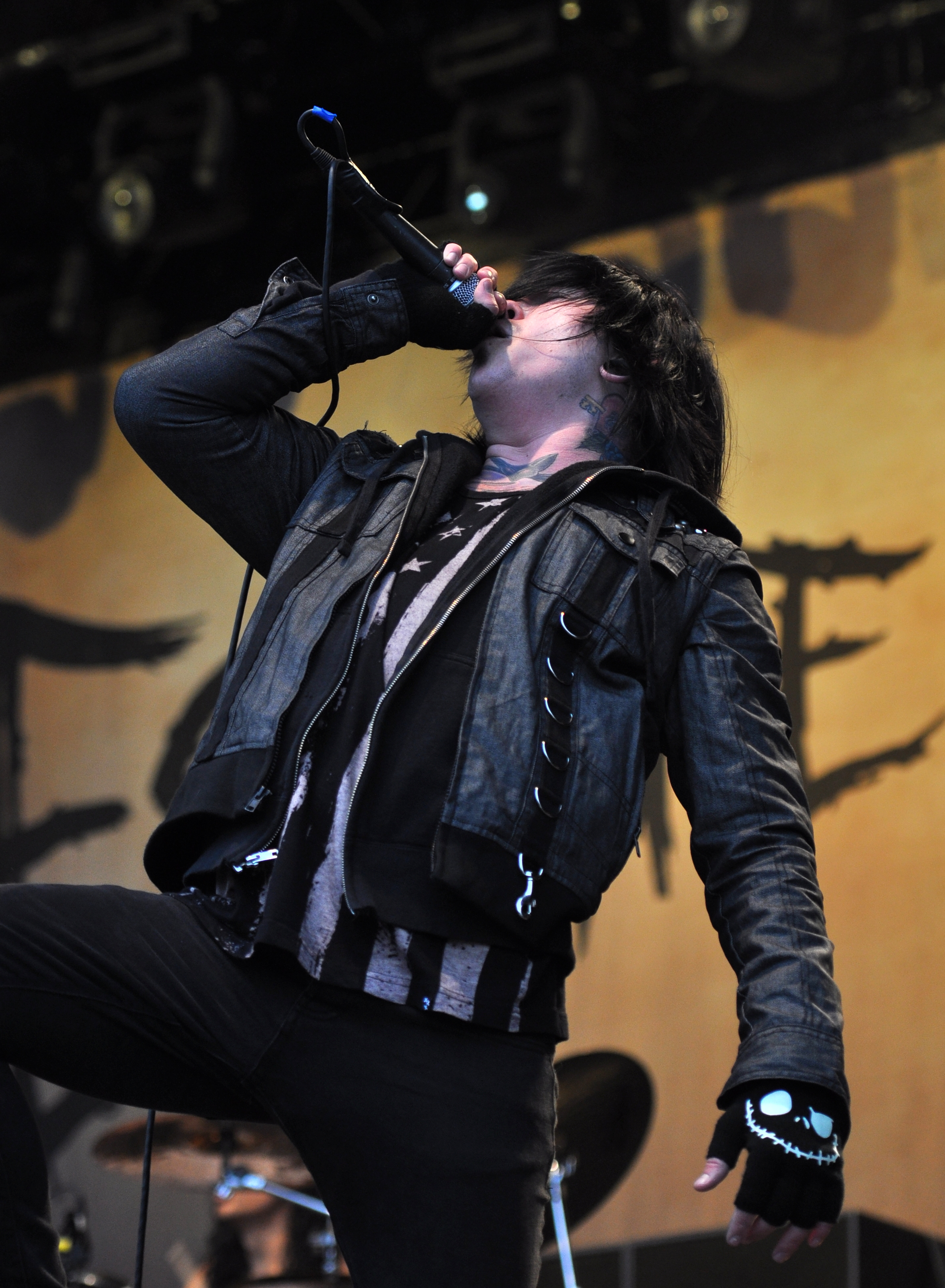 Escape the Fate at Rock am Ring 2013